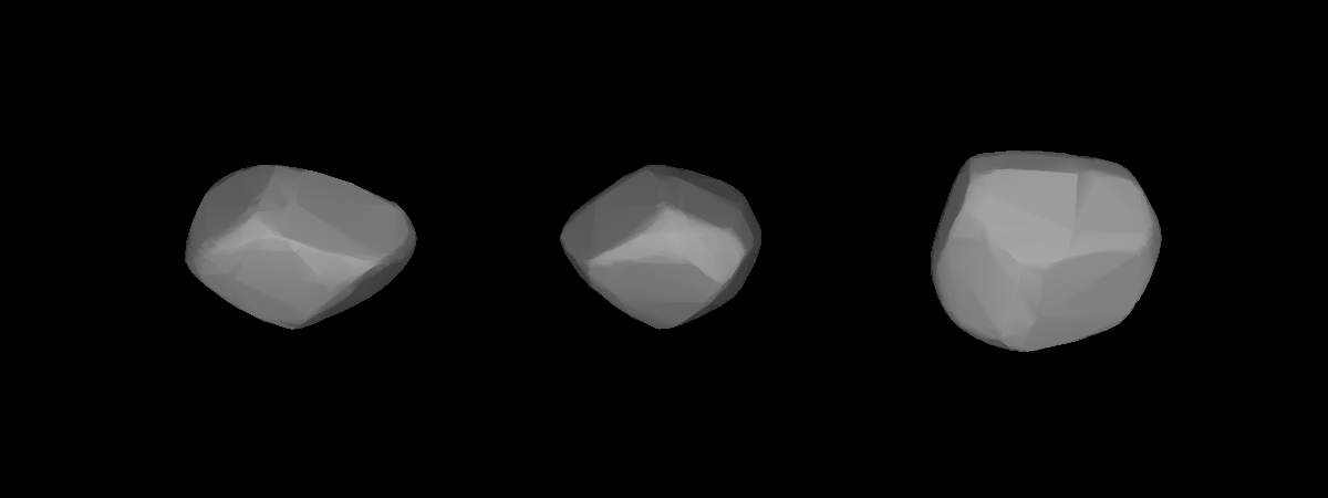 A three-dimensional model of 64 Angelina that was computed using light curve inversion techniques.